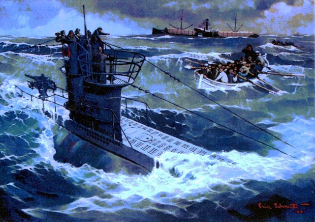 Painting of Estonian merchant ship SS Merisaar's lifeboat approaching German submarine U-99 in July 1940 after the sub fired shots to halt the ship.